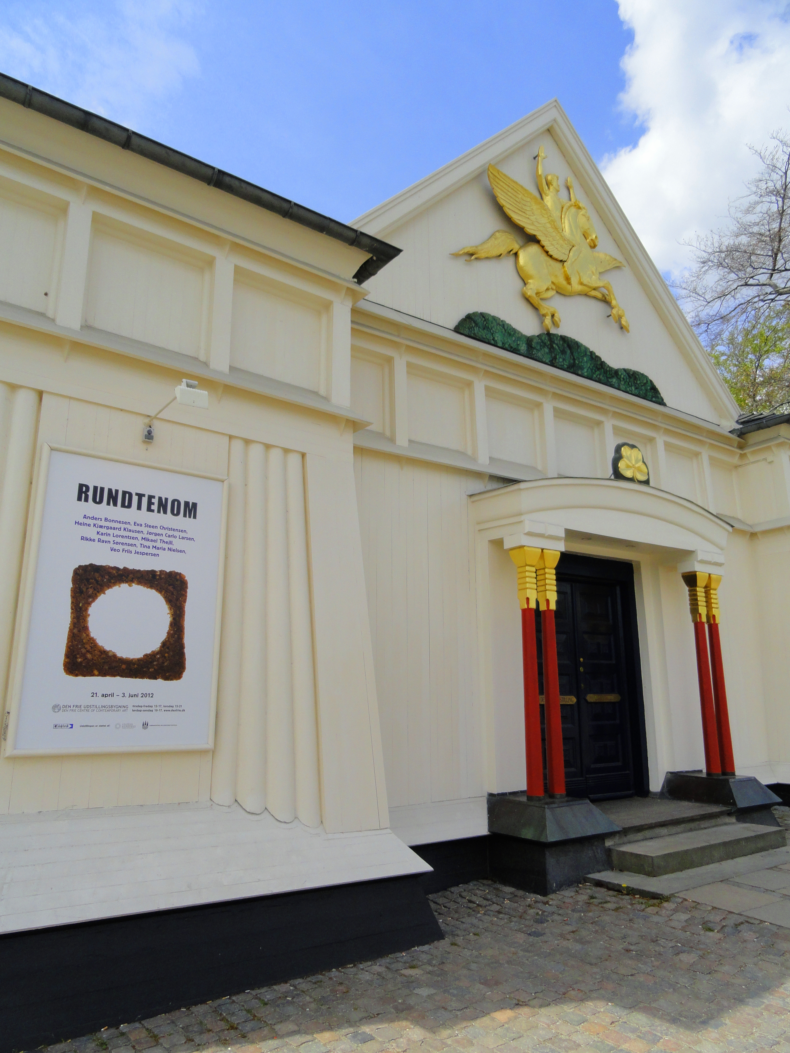 Den Frie Udstillingsbygning (Den Frie Centre of Contemporary Art), Copenhagen, Denmark.